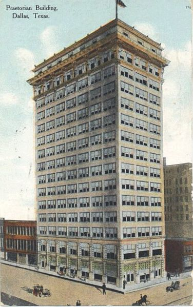 The Praetorian Building, the first skyscraper in Dallas. Image is taken from an old colorized postcard published in 1908, one year before the building's 1909 completion.